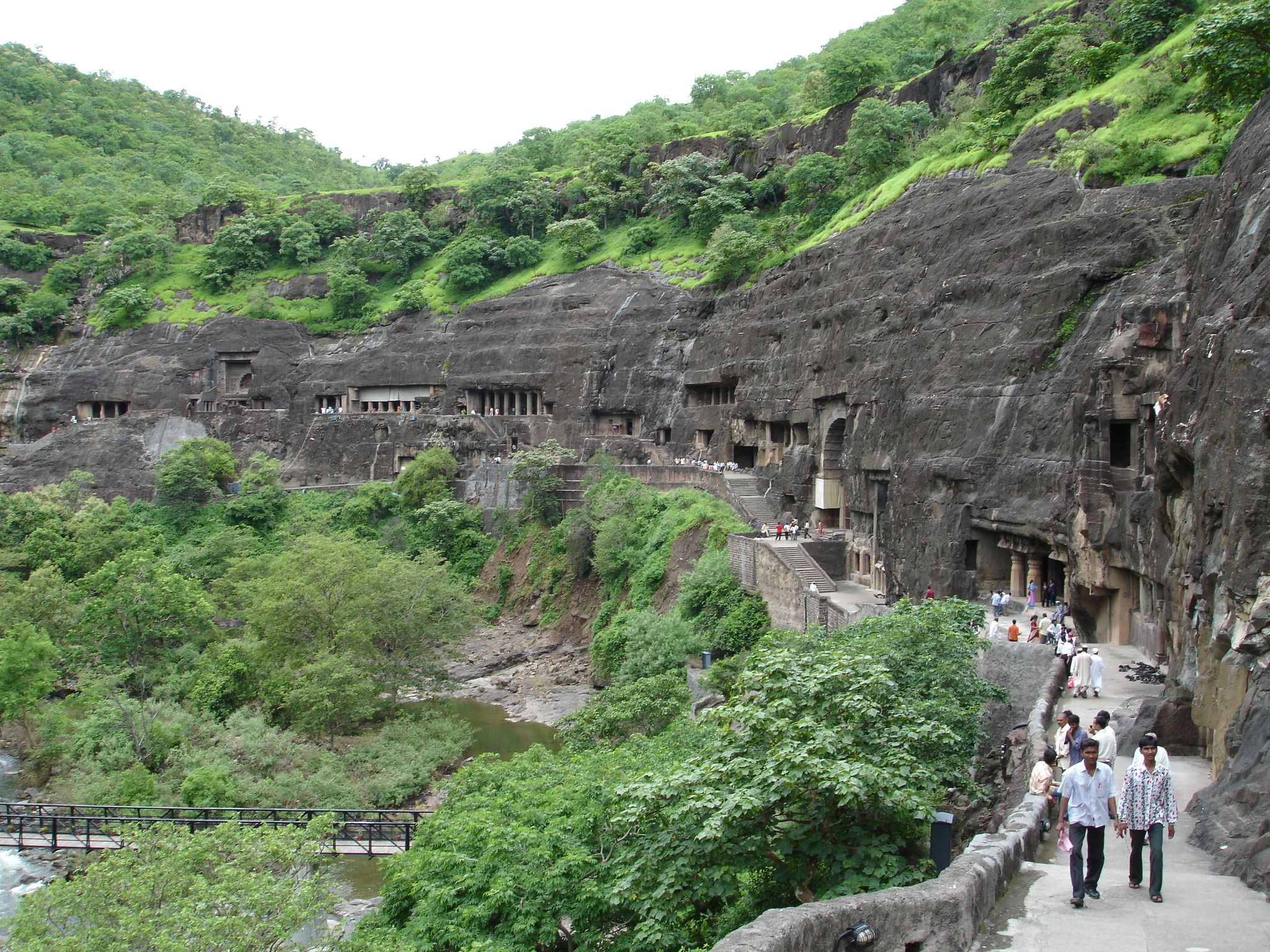 thumb|Ajanta Caves.